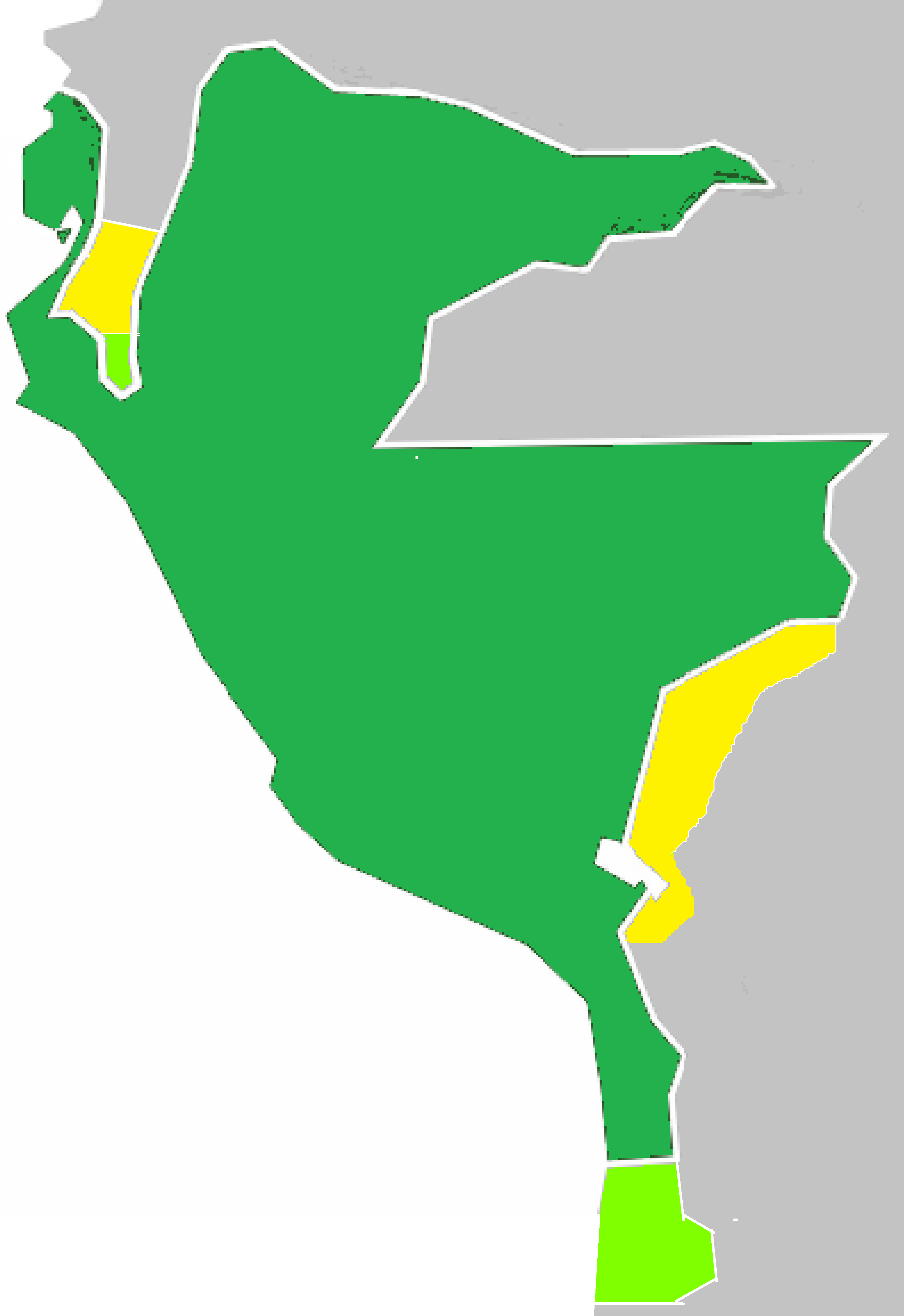 Free departments of Peru with their positions, claiming as their own territories and areas where informal control exercised Green: The territorial positions In light green : The positions where informal control exercised and was the protectorate in religious, economic and governmental facto state who the controlled areas . In addition to containing a large majority of people interested in forms part of the Peruvian Republic Yellow: Territories also claimed as theirs also contain a majority of pro Peruvian population